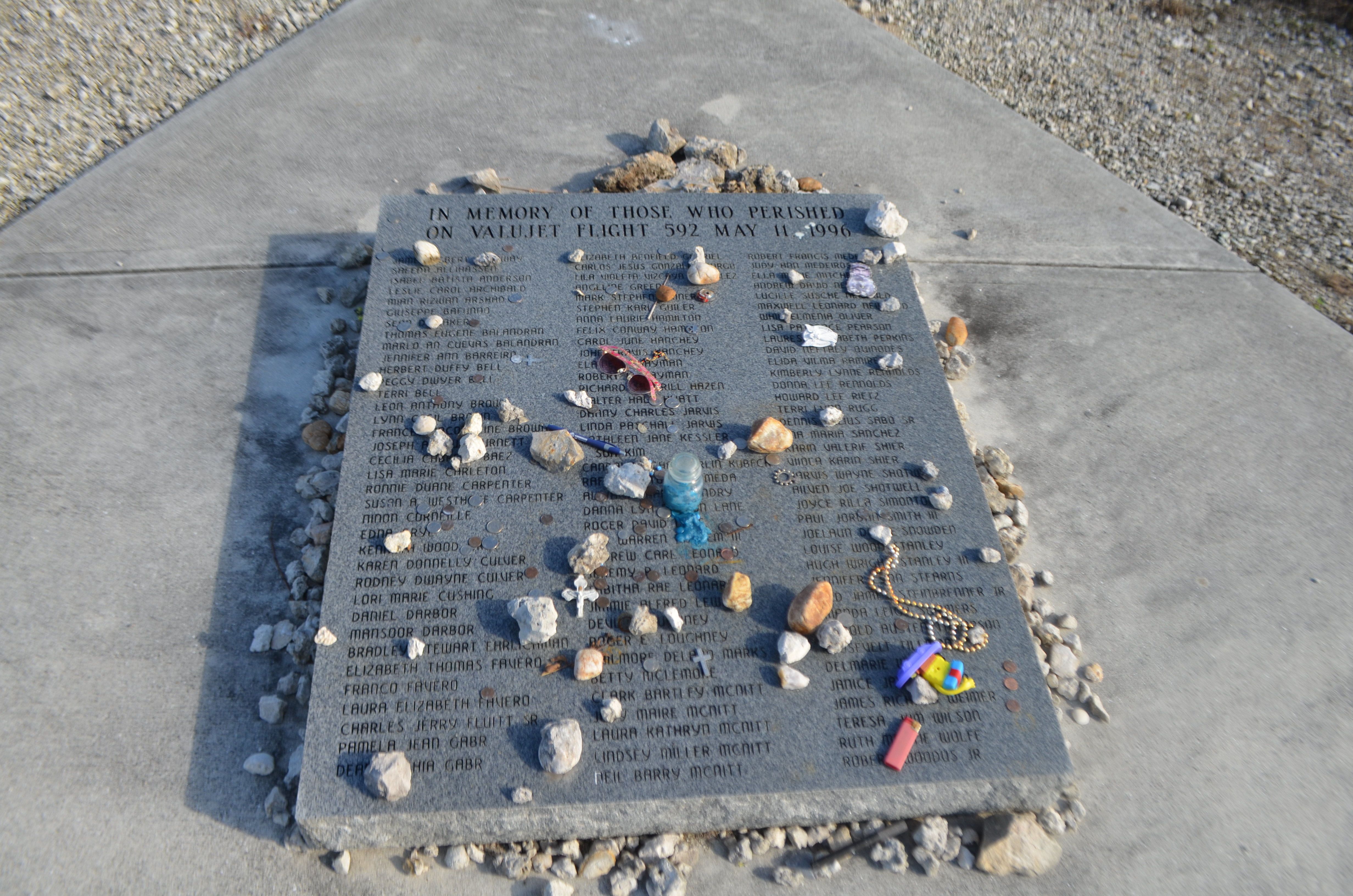 Names of presumably all the victims at the ValuJet Flight 592 memorial.